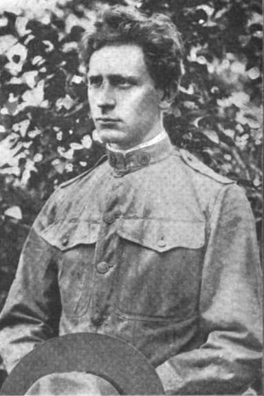 Portrait of musician Percy Grainger in the service of the US Army—Fifteenth Band, Coast Artillery Corps